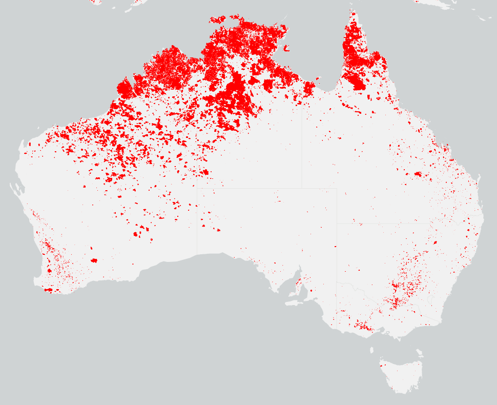 Burned areas shown in red detected by NASA's MODIS imaging sensors onboard Terra & Aqua satellites from June 2014 to May 2015. We acknowledge the use of data and imagery from LANCE FIRMS operated by NASA's Earth Science Data and Information System (ESDIS) with funding provided by NASA Headquarters.